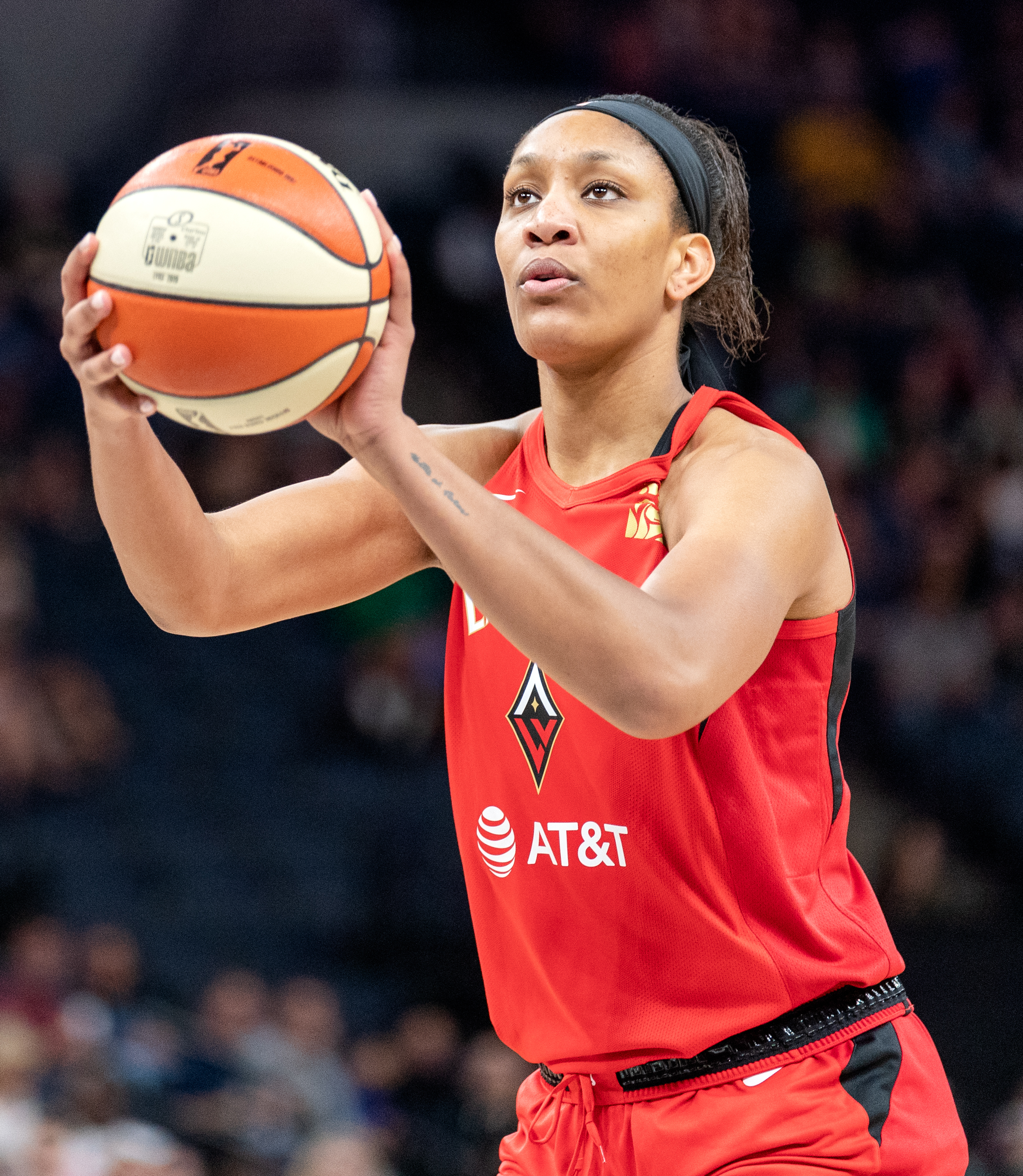 Minnesota Lynx vs Las Vegas Aces at Target Center in Minneapolis, MN on June 1 2019; the Aces won the game 80-75.